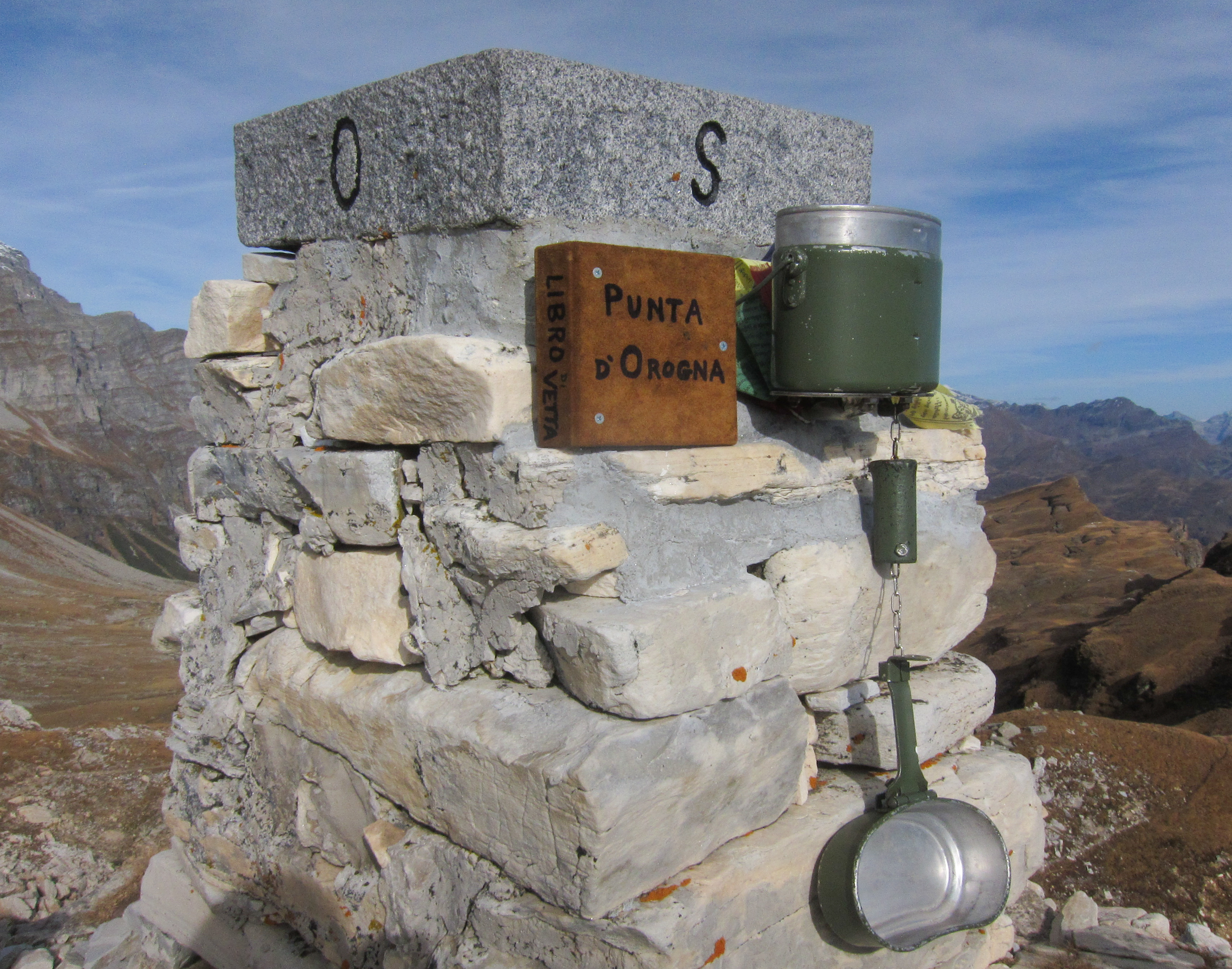 Cippus on the summit of mountain Punta d'Orogna. There is a cippus of stone and cement to mark the top. The mount is located in Devero Valley in the municipality of Baceno, region Piedmont in Italy. Picture taken on the 27th of october 2019. 2019-10-27